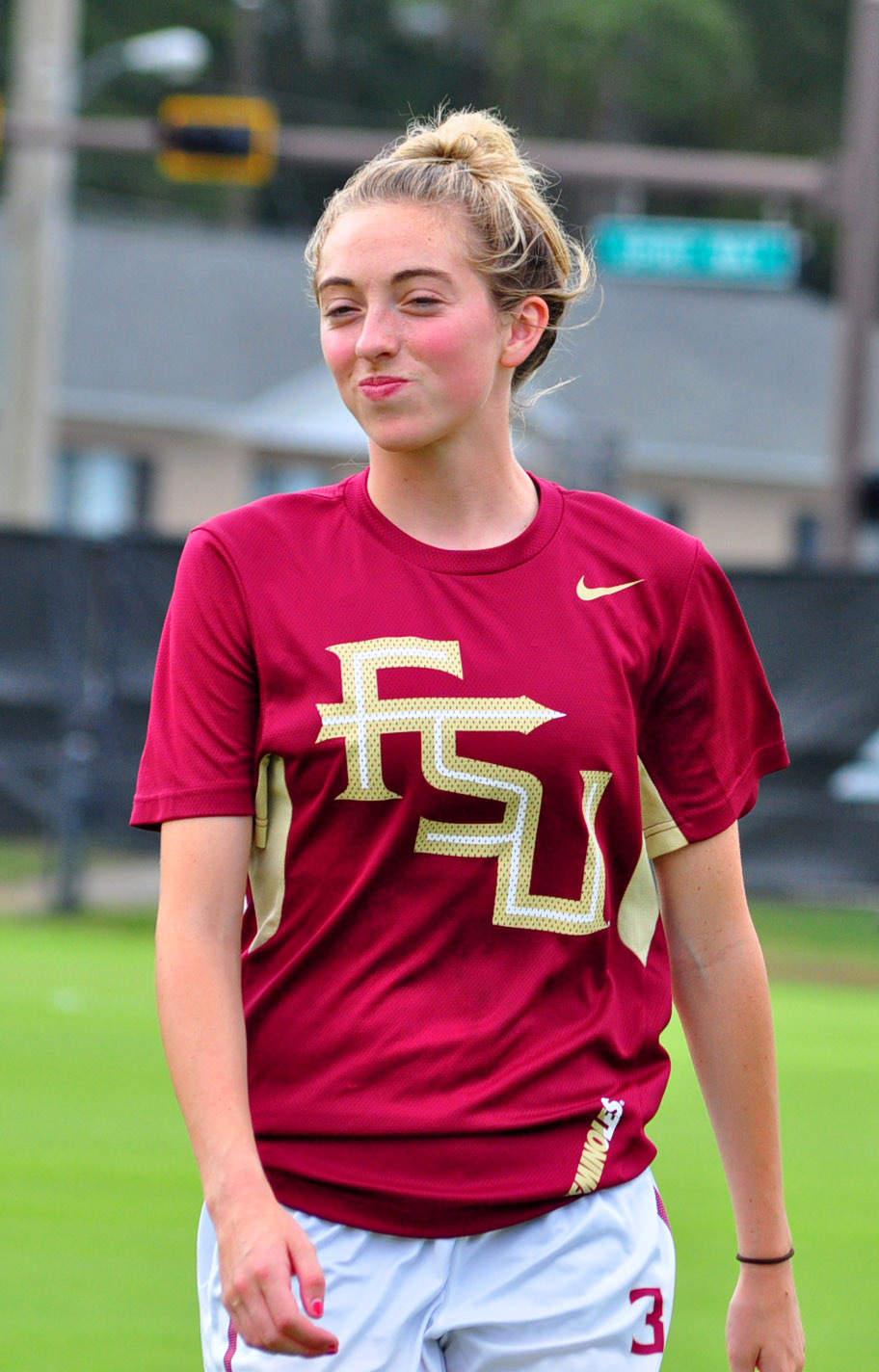 MC2 and Bella